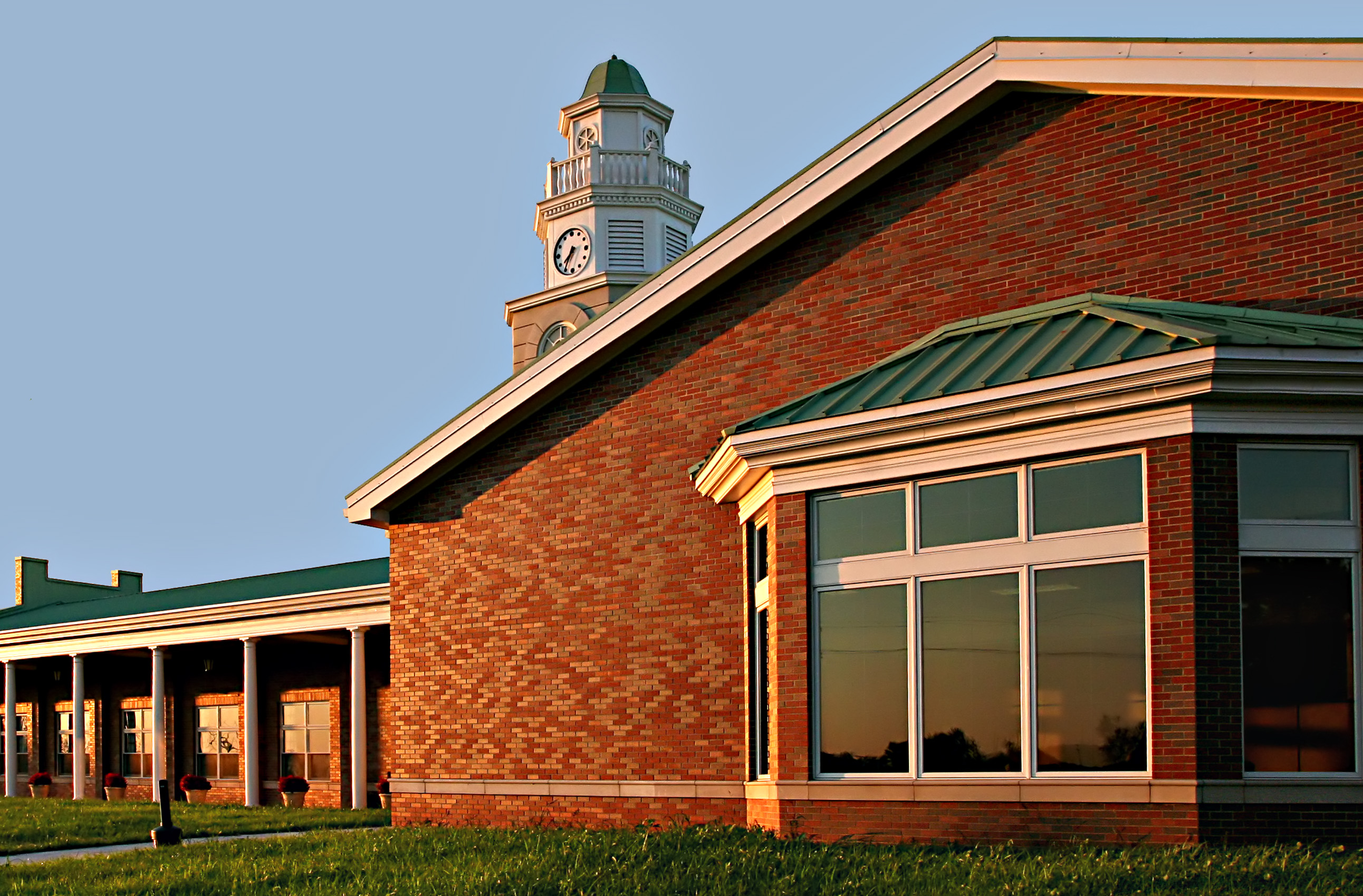 View of Ohio University's Southern campus branch just north of Proctorville, OH